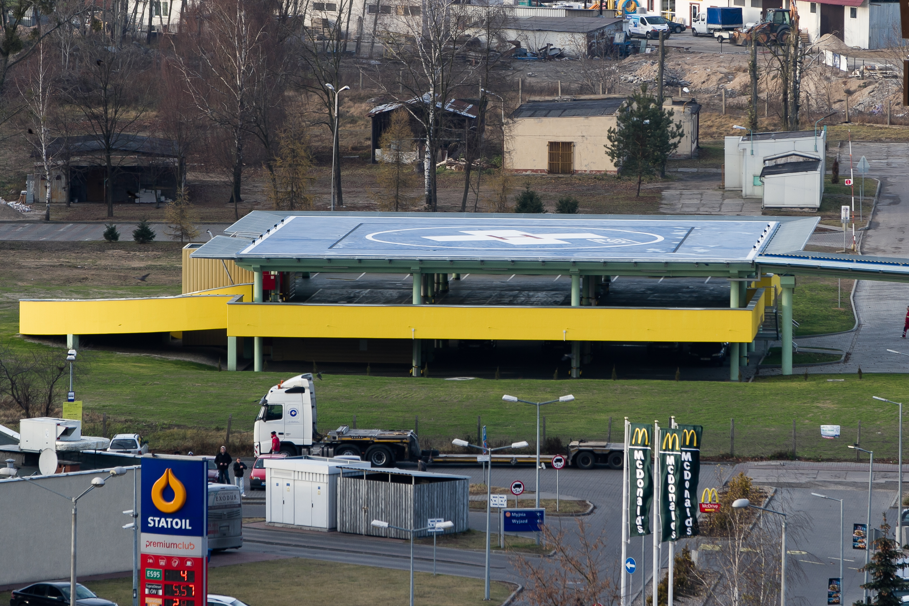 Medical heliport at a hospital in Brodnica